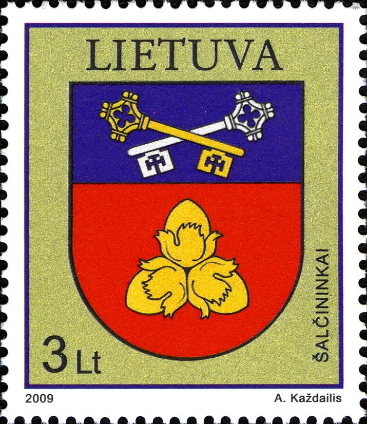 Coats of Arms. Date of issue: 21st February 2009. Designer: No 1000 - H. Mazuras; No 1001 - J. Galkus; No 1002 - A. Kazdailis Paper: chalky Printing process: offset Perforation:comb 14 Size ofa stamp: 30 x 34,50 mm. Sheet composition: 50 (10 x 5) stamps Printing run: 500.000 Michel cataloguenumbers: 1000-1002 3 L. multicoloured. Coat of arms of Šalčininkai.